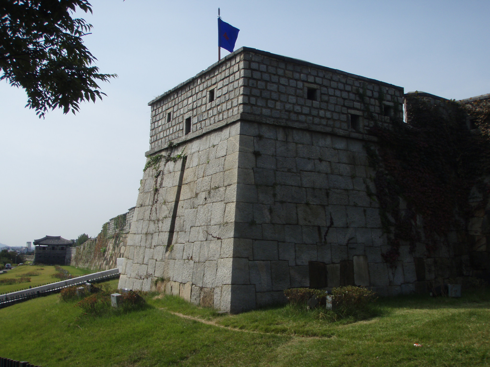 Suwon Hwaseong Dongilchi